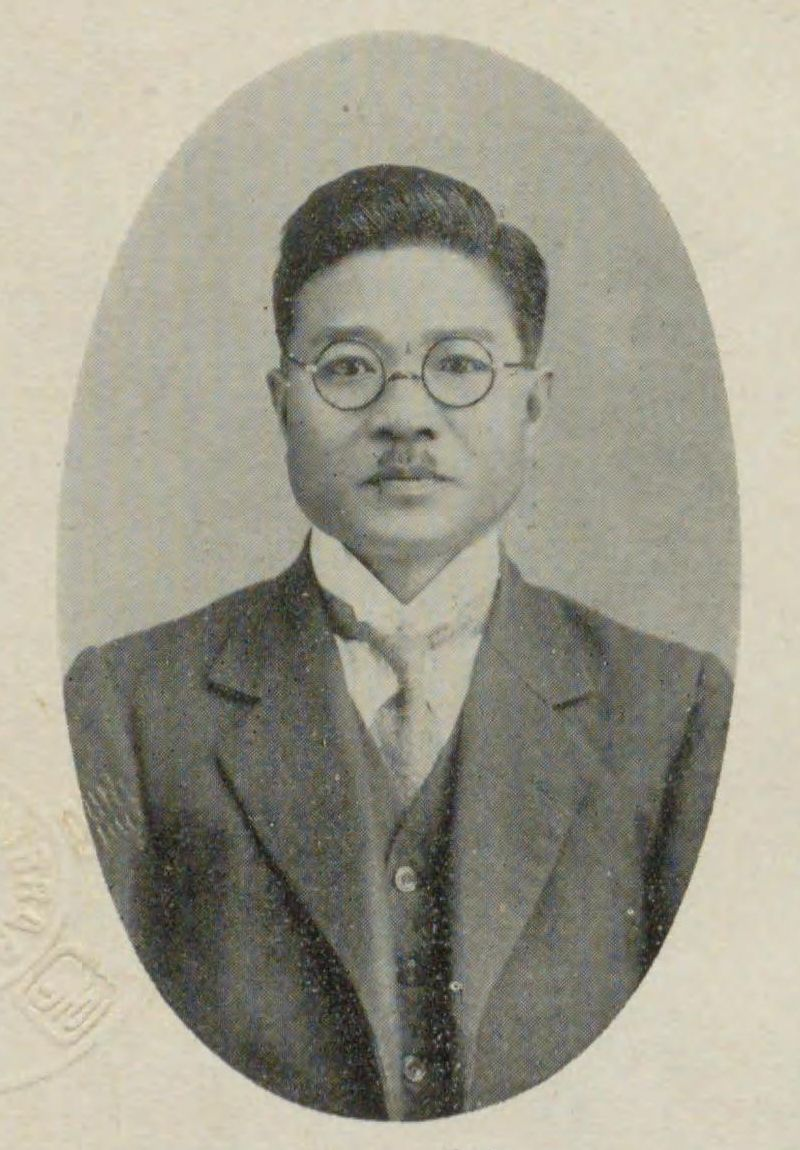 Gen'ichiro Shimabukuro